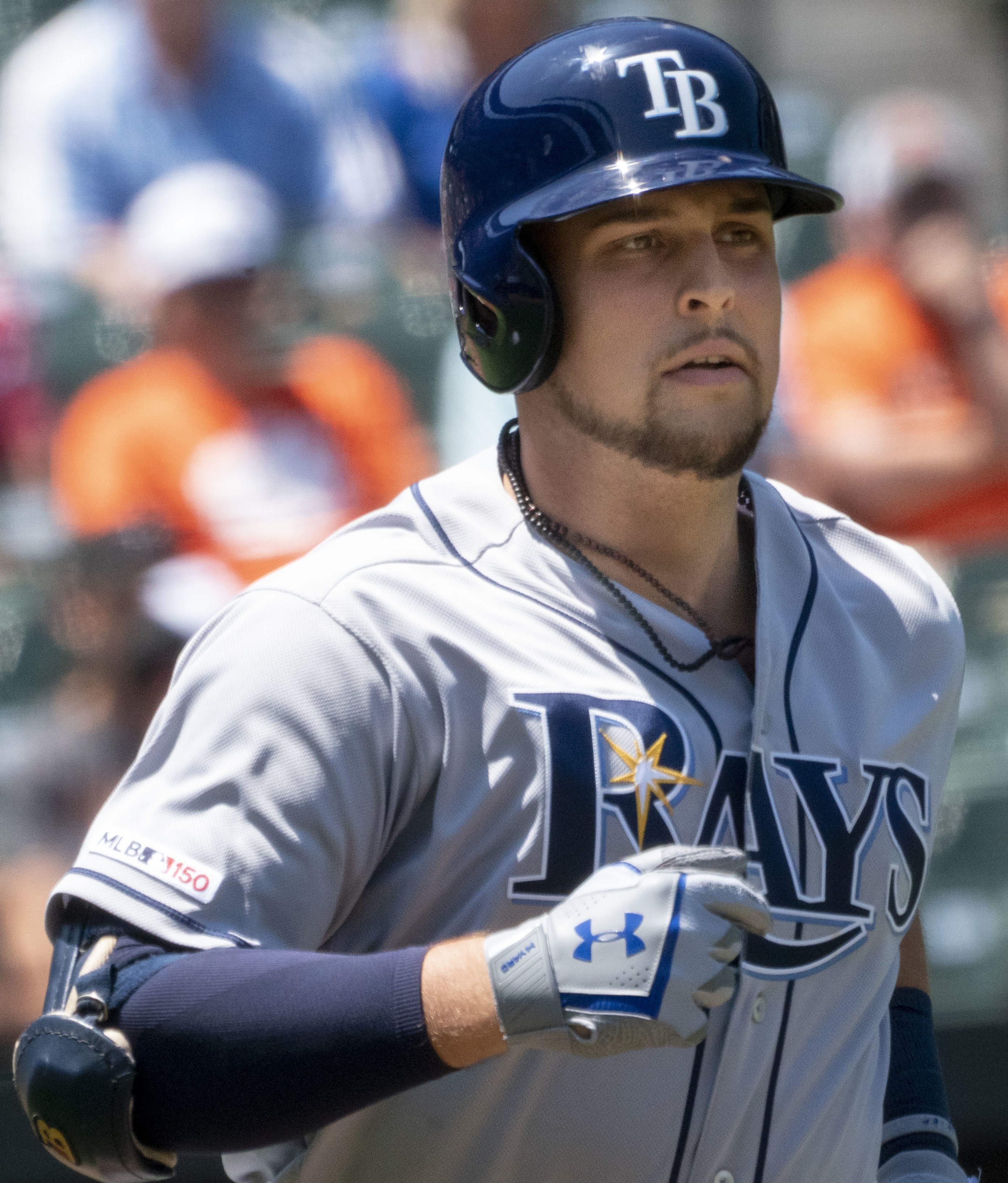 Rays at Orioles 7/13/19